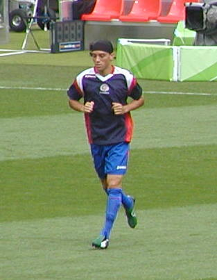 Players from Costa Rica in 2006 World Cup before a match against Poland.